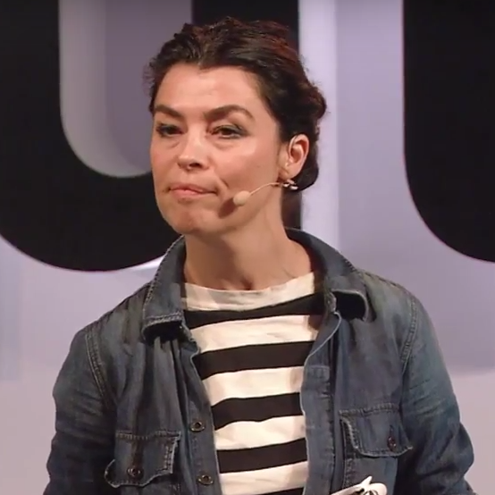 Es Devlin is a stage designer. Here presenting at FutureFest in 2016. She works as creative director for pop artists and has been designing shows for Louis Vuitton since 2014 . Devlin designed the 2012 Summer Olympics closing ceremony.